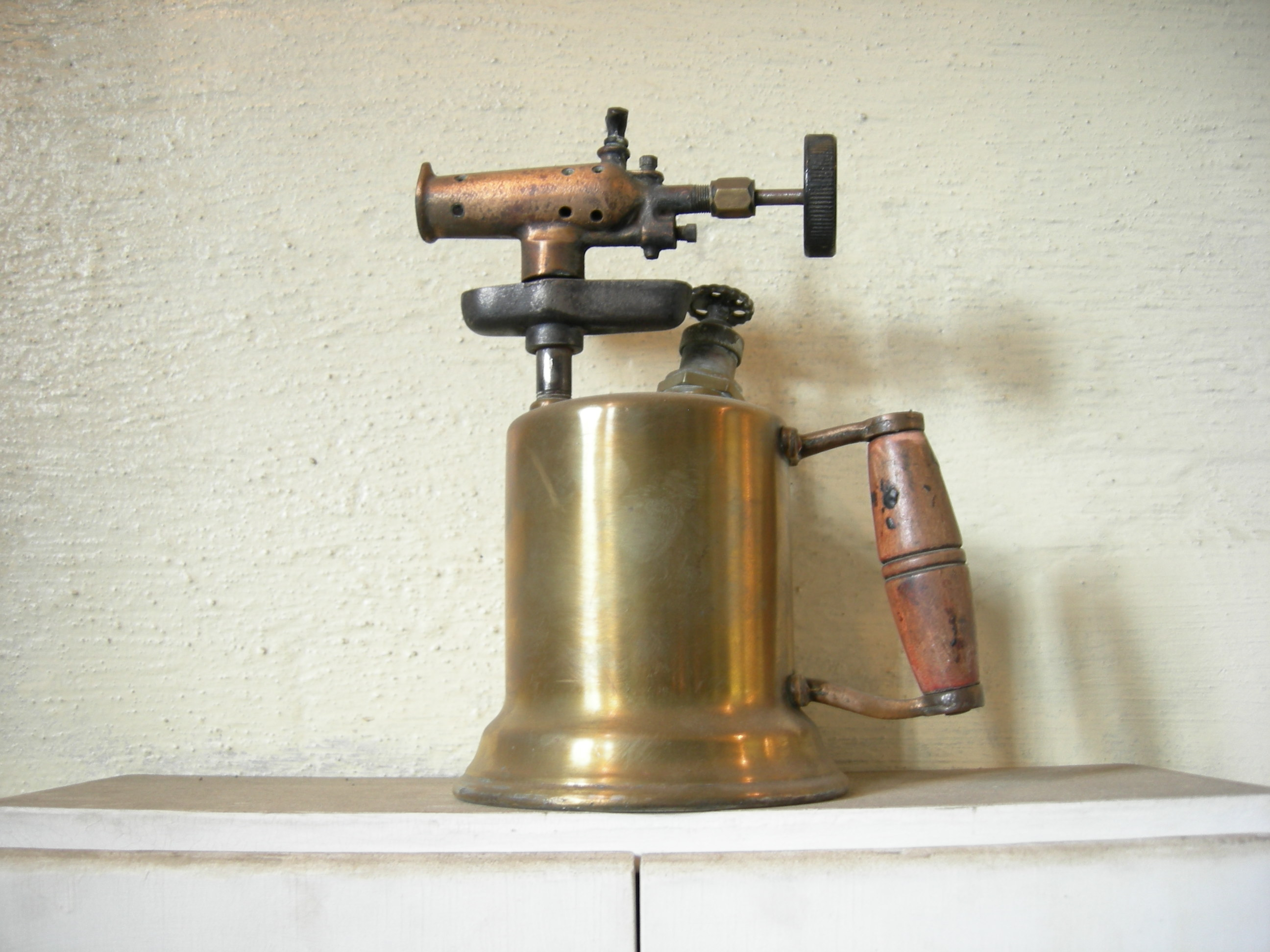 Old blowtorch, Georgetown PowerPlant Museum, Seattle, Washington, USA.